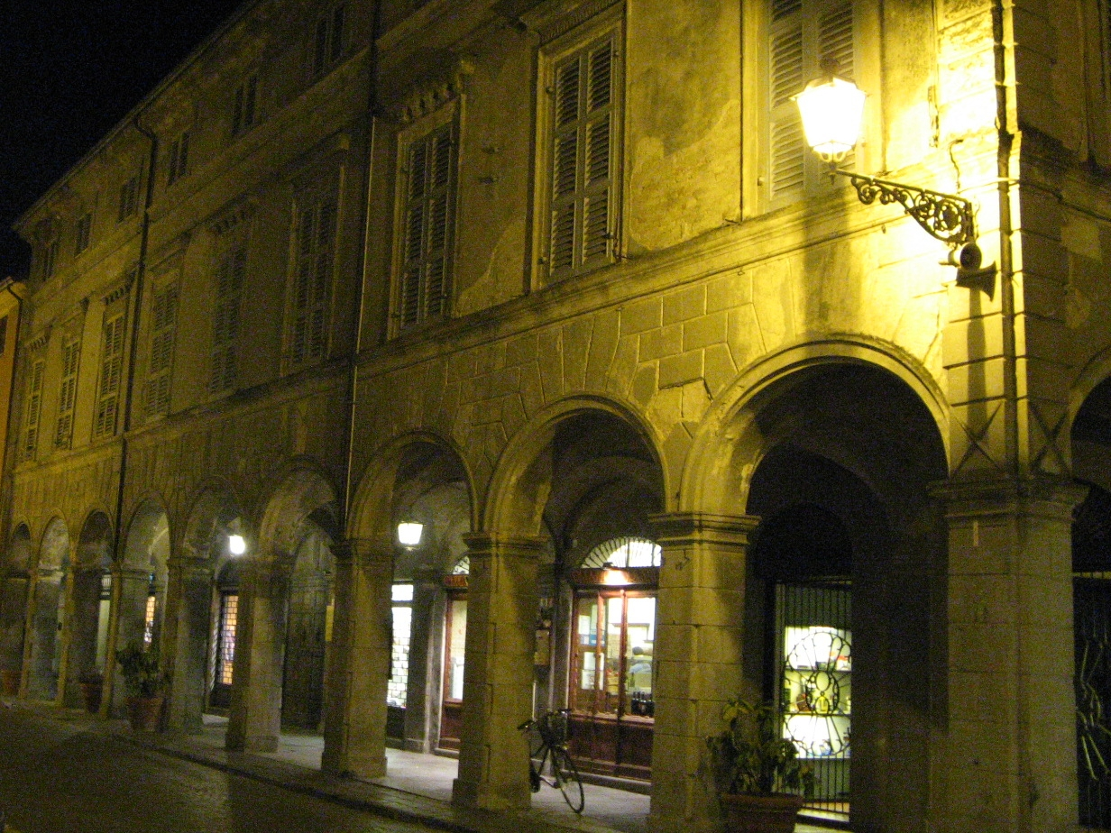 The opera composer Giuseppe Verdi lived in Palazzo Orlandi from 1849 to 1851 with the former opera singer Giuseppina Strepponi, who would later become his second wife.